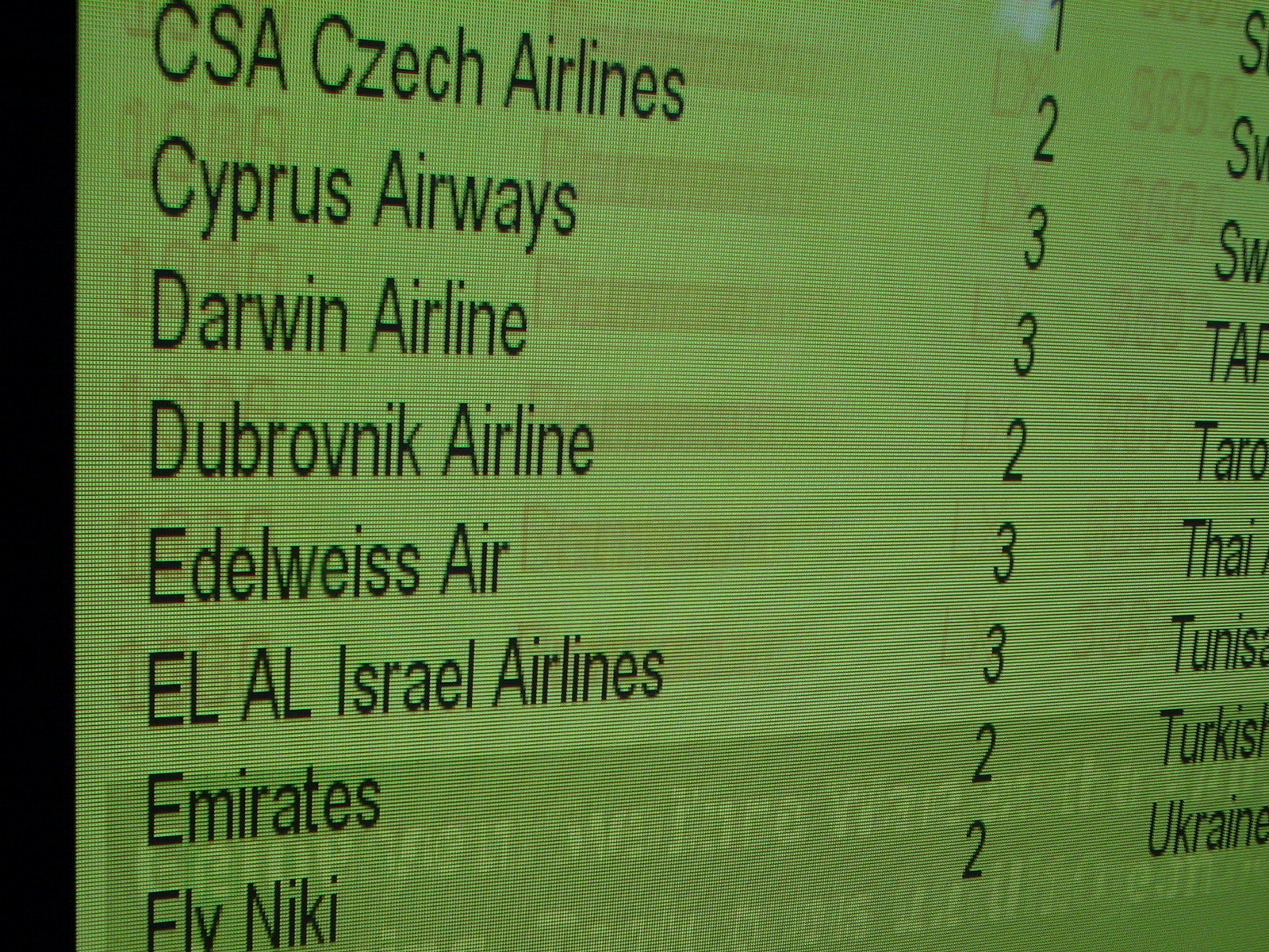 Plasma burnin at LSZH airport